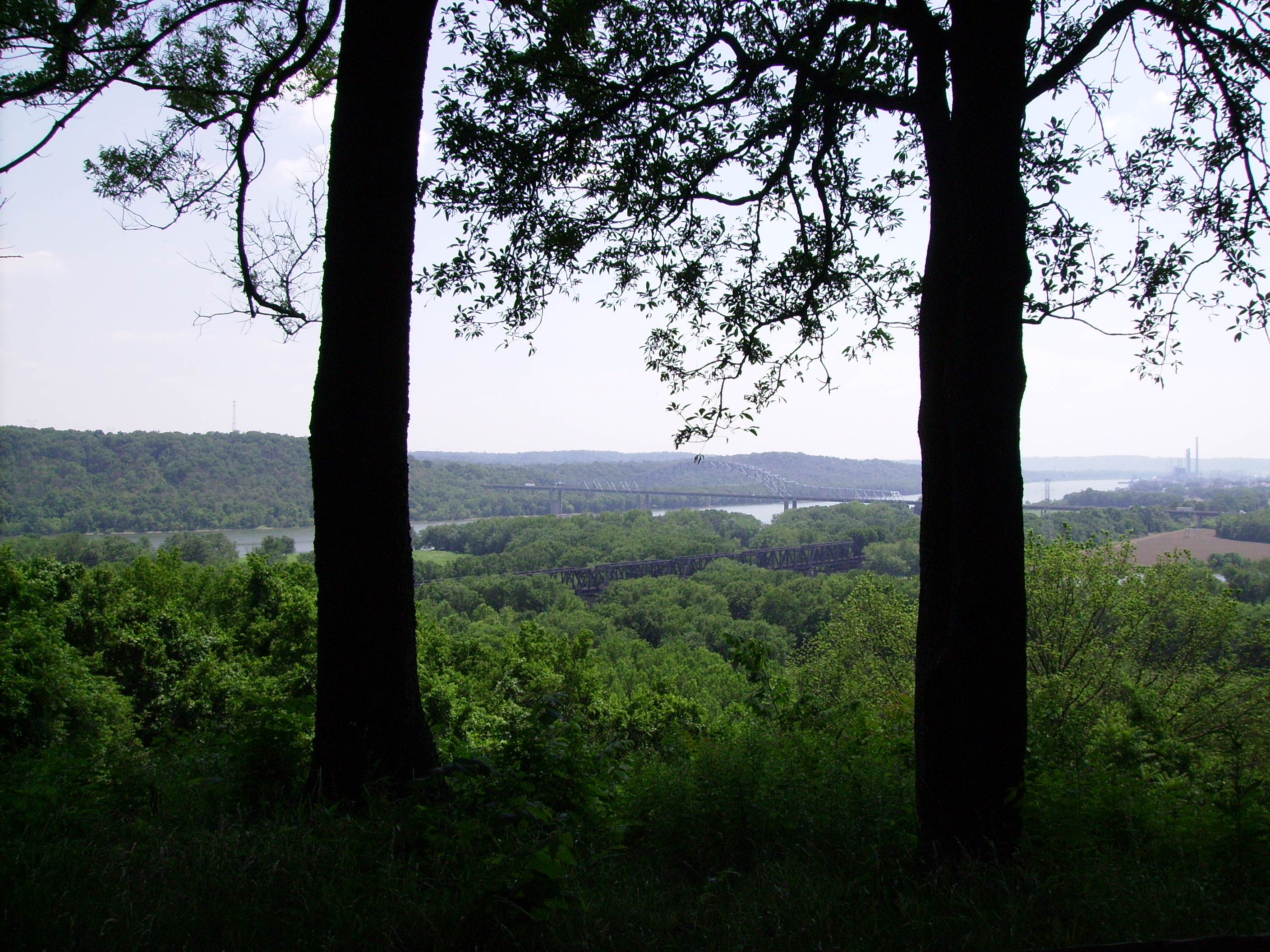 Shawnee Lookout, Cincinnati OH (Hamilton County)